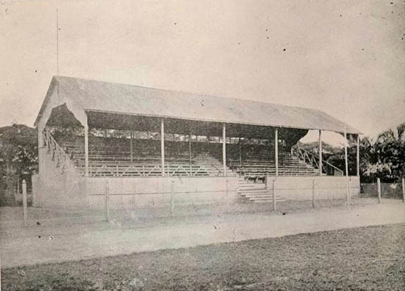 Club Ferrocarril Oeste of Buenos Aires stadium published in 1922. The picture shows the grandstand and part of the field.